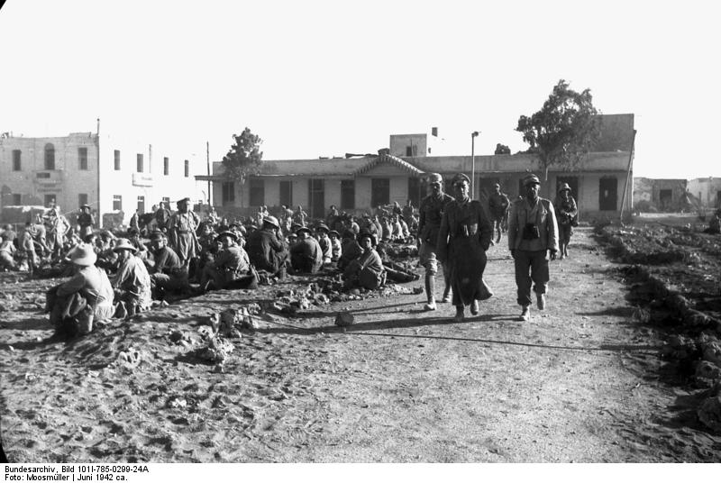 German Generals Erwin Rommel and Fritz Bayerleinin, with British prisoners of war in Tobruk, Italian Libya - 1942